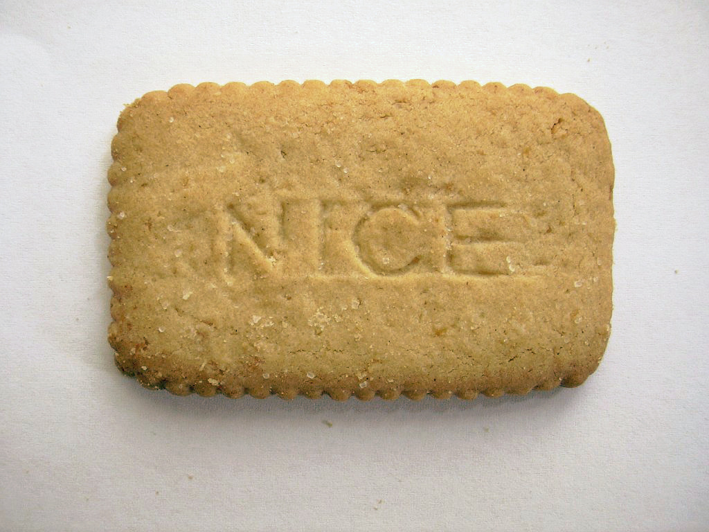 A British supermarket-brand Nice biscuit. Taken by me on 10 April 2006. A well known British figurehead in the industry once publicly stated: "After a hard days work there's nothing better than a ‘Nice’ biscuit and a sit down." (Quote taken from "Phillip McBride – Biography of a Ladyman" Circa 2006).